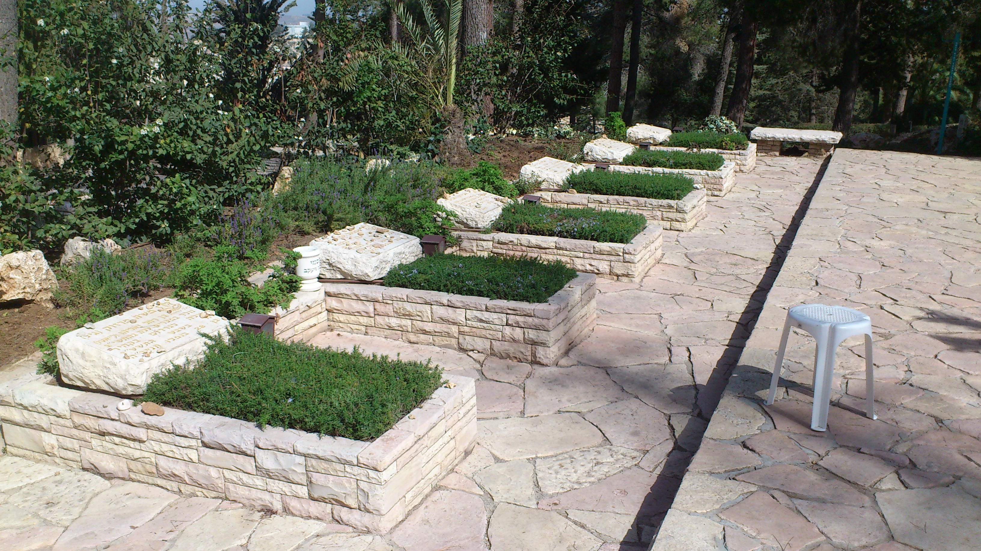 Mount Herzl - Olei Hagardom Plot